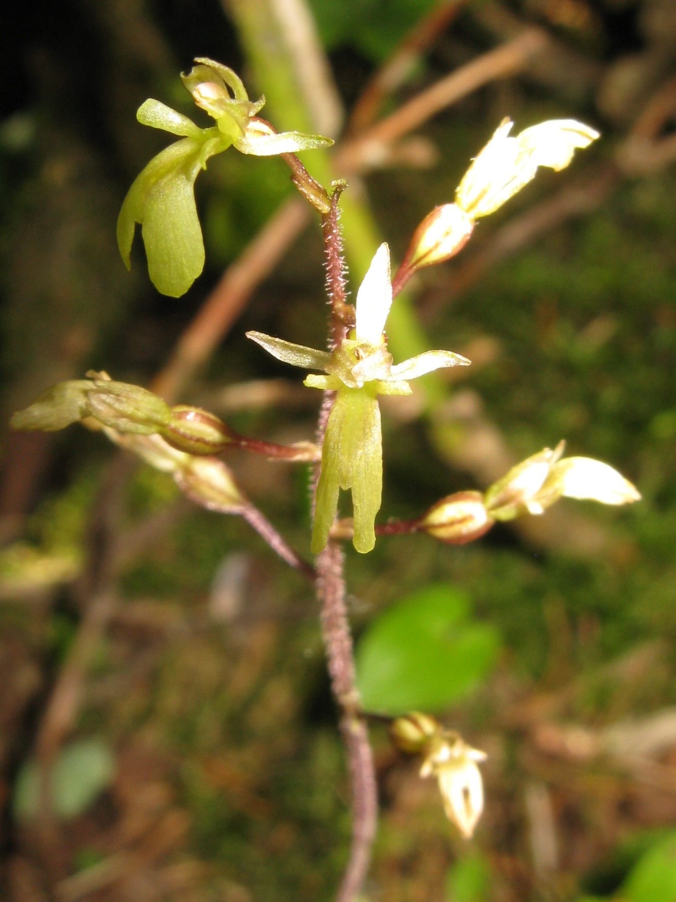 Neottia nipponica, Nihonmatsu city, Fukushima pref., Japan